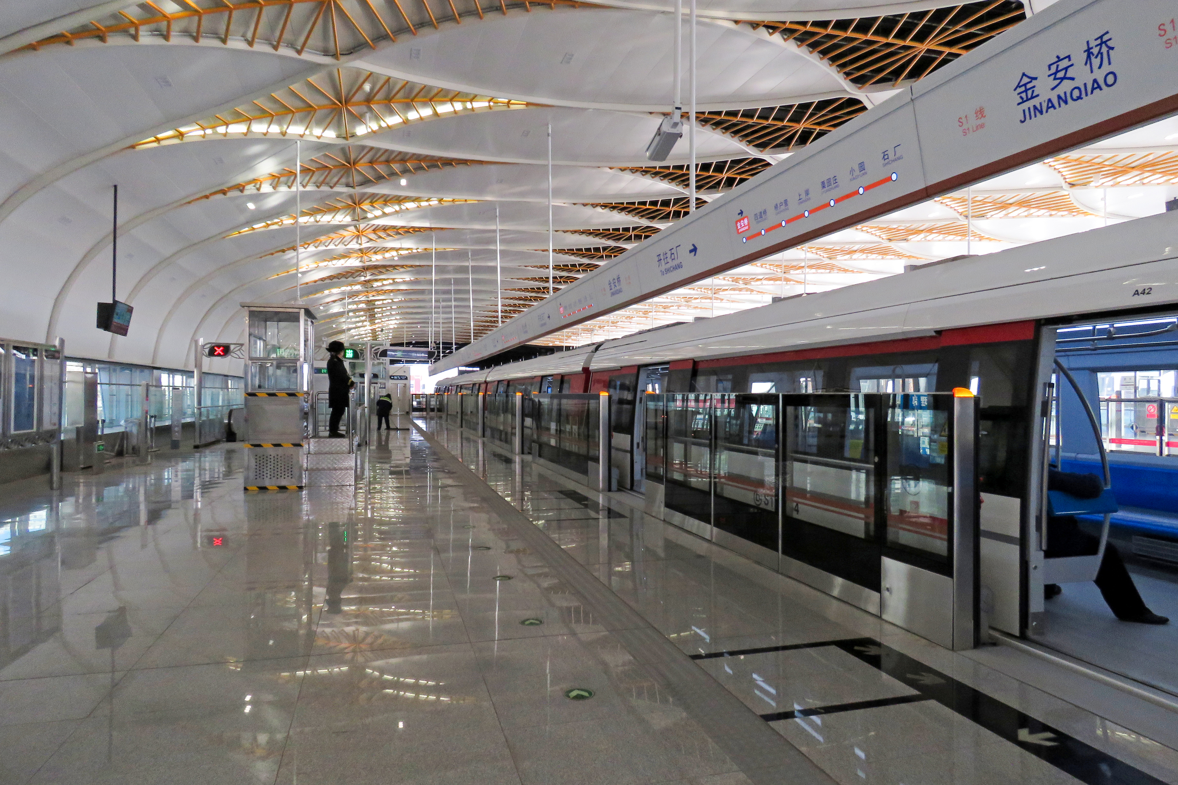 No time for a panorama.